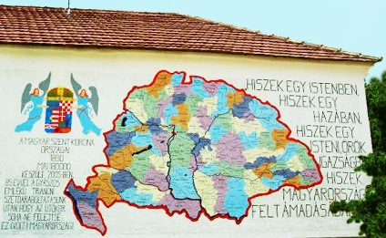 The great Hungary painted on a house